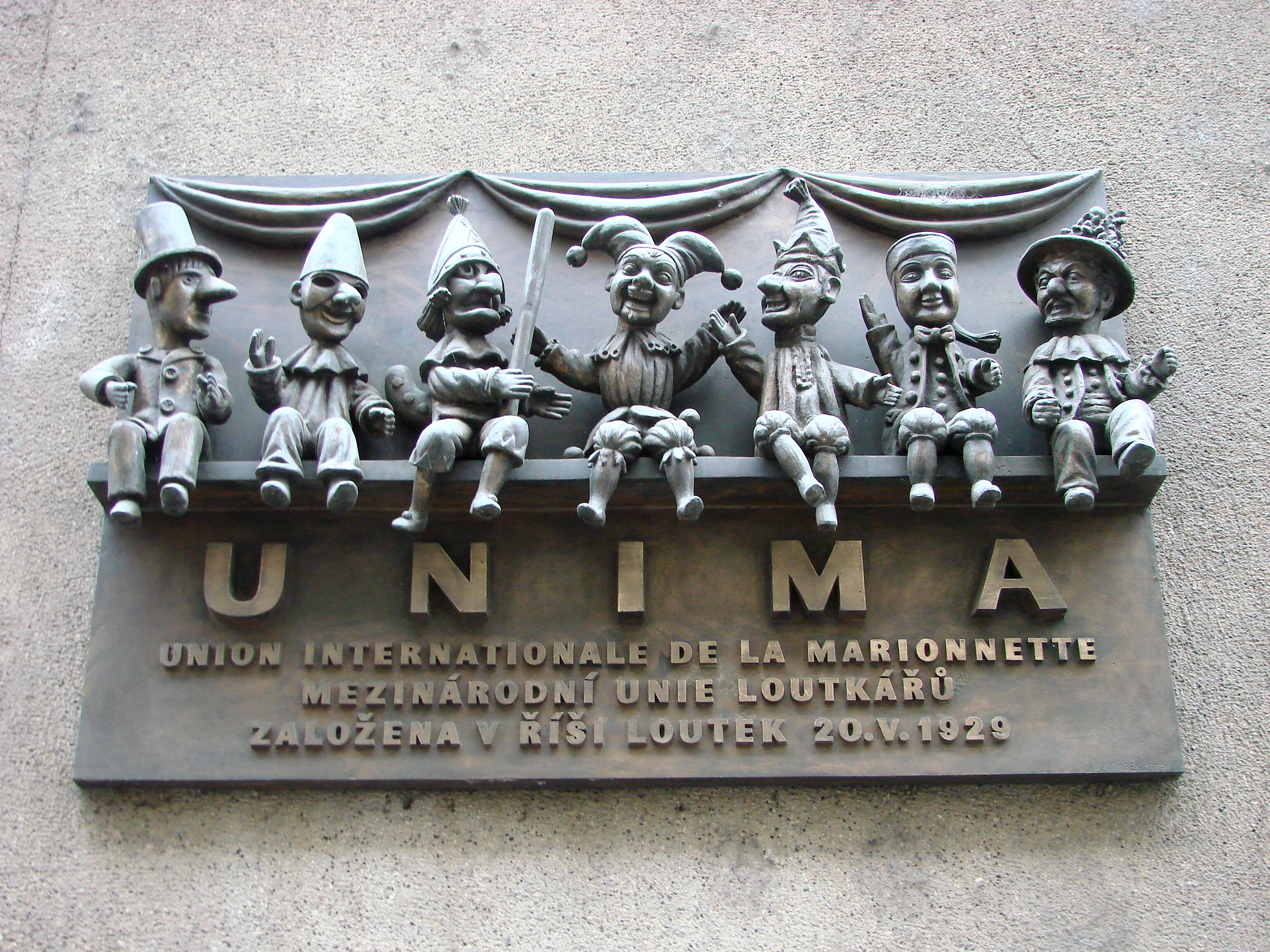 UNIMA Sign - Marionettes Union - Prague - Czech Republic